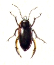 Liopterus haemorrhoidalis, from Calwer's Käferbuch, Table 8, Picture 9. Taxonomy was updated to 2008, using mostly the sites Fauna Europaea and BioLib. Please contact Sarefo if the determination is wrong!